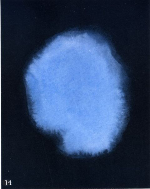 Vague Religious Feelings. From: Annie Besant and C.W. Leadbeater (1925 [1901]) Thought-Forms, London: The Theosophical Publishing House, fig. 14.